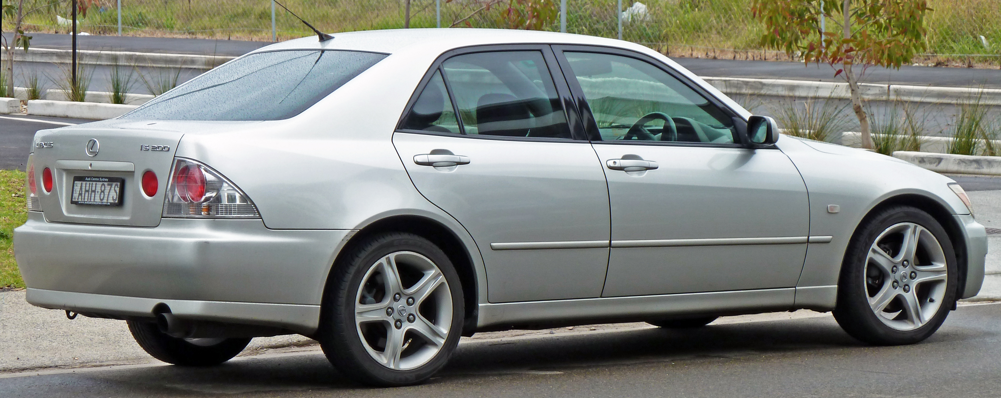 1999 Lexus IS 200 (GXE10R) sedan. Photographed in Zetland, New South Wales, Australia.